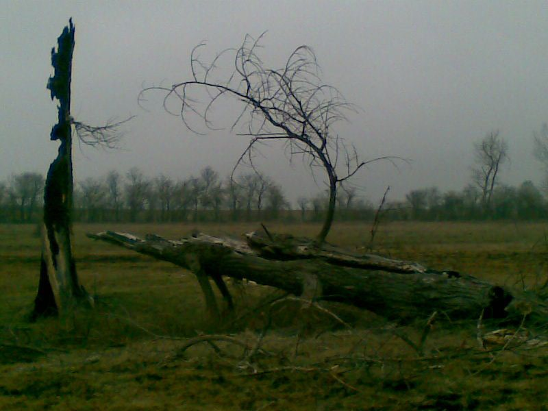 View of village Borima